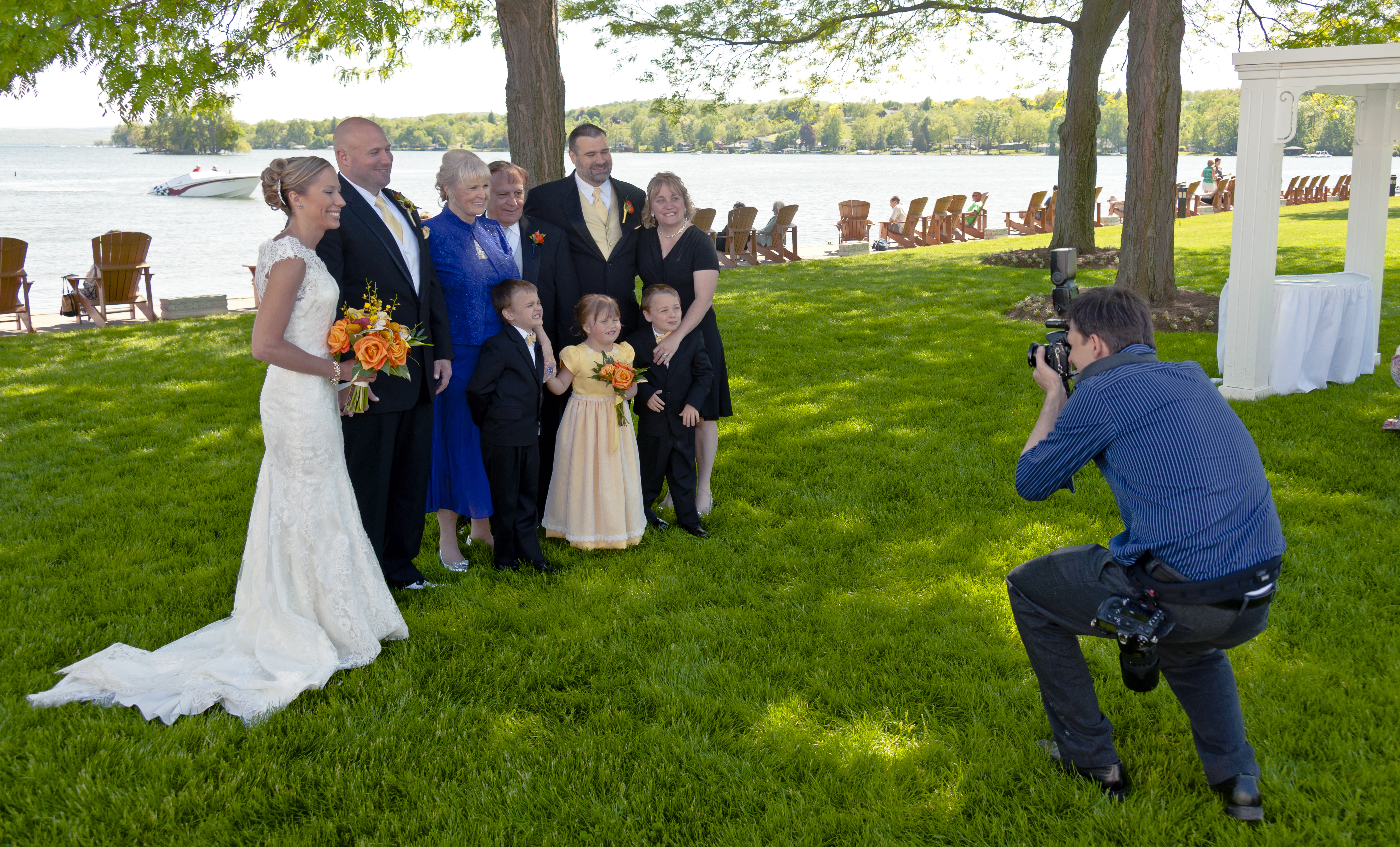 A wedding photographer photographing a bride with her groom and family on the shores of Canandaigua Lake in Canandaigua, NY, USA